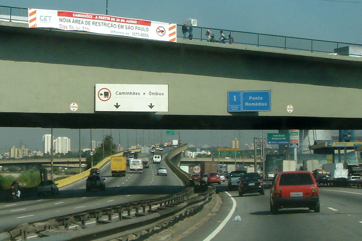 Banner warning of new (effective 2008-06-30) vehicle restriction for trucks at downtown São Paulo, Brazil